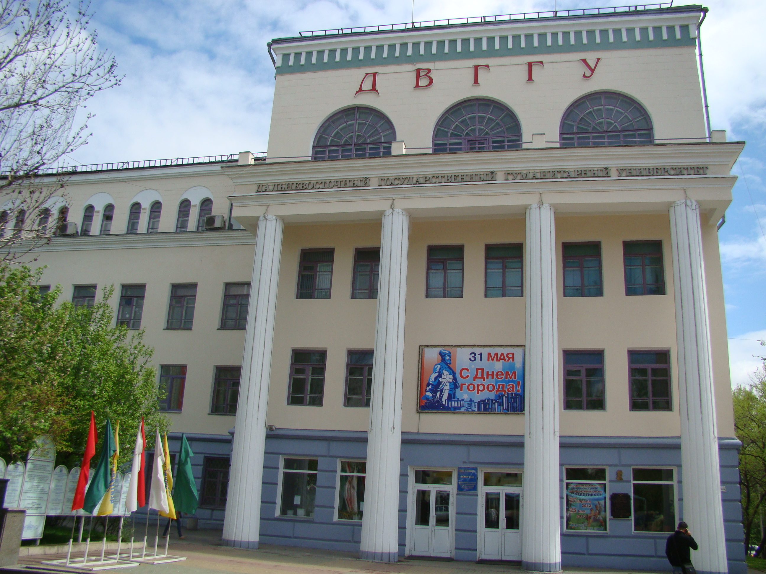 Far Eastern State University of Humanities 2013